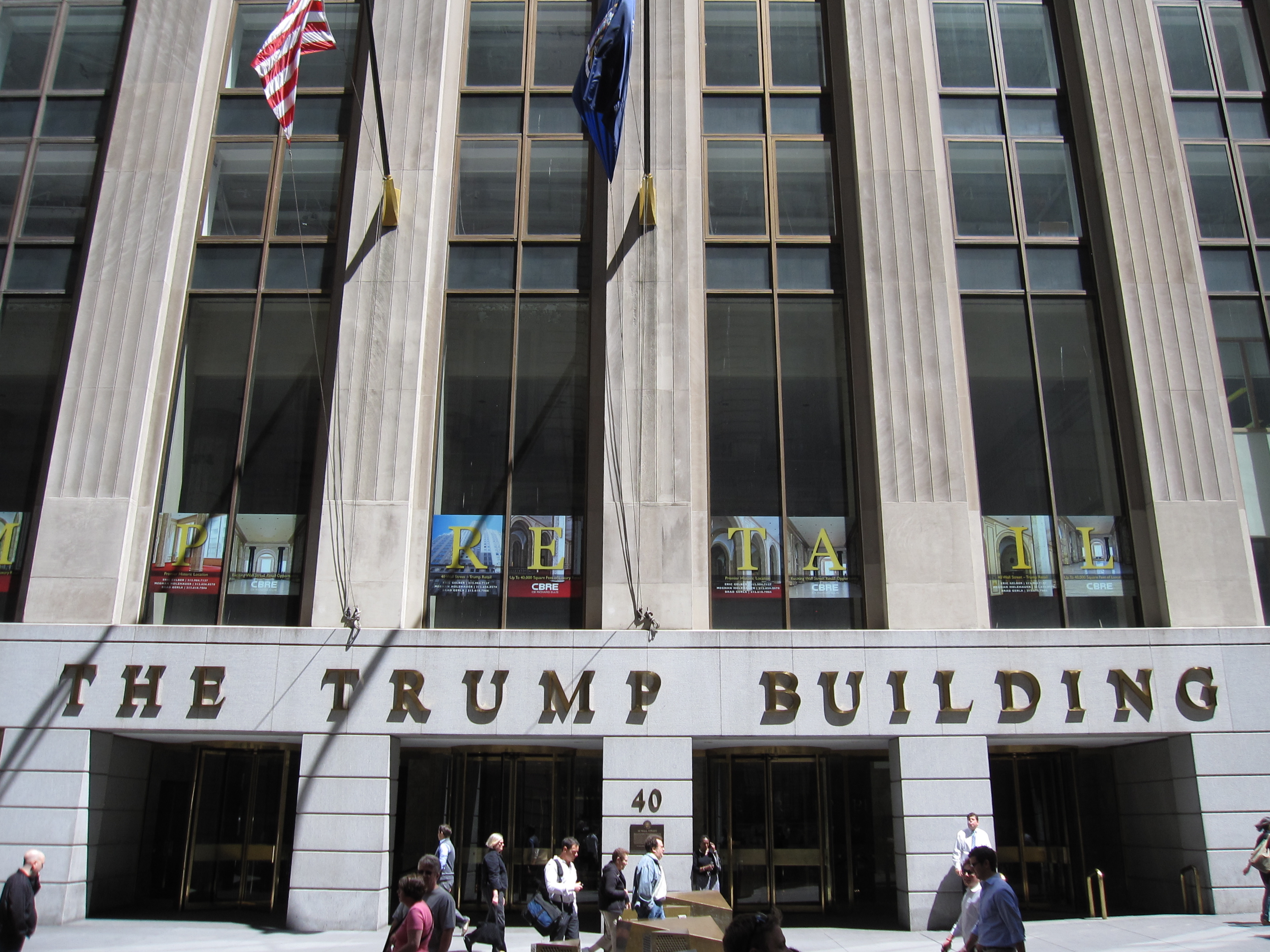 40 Wall Street